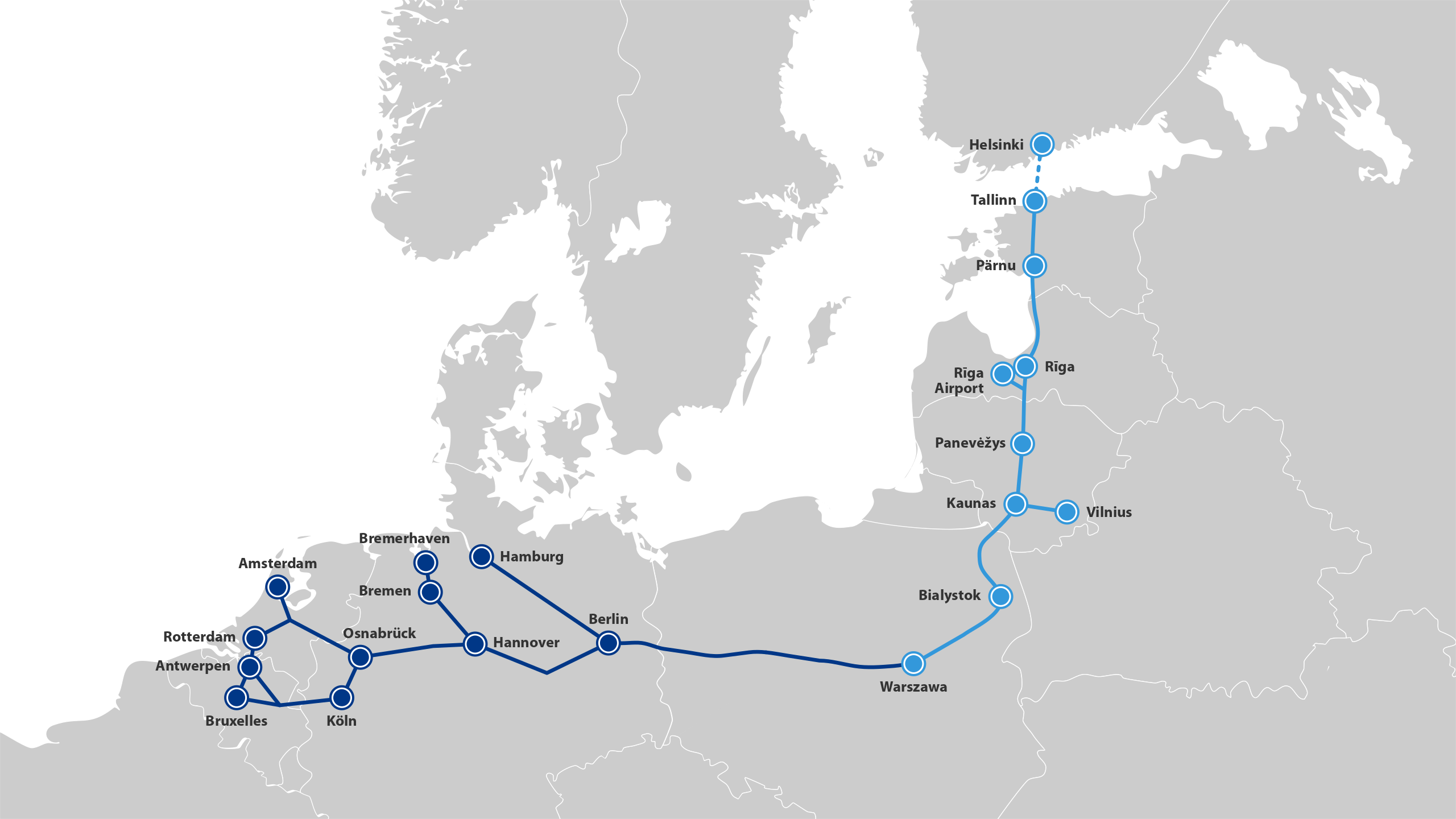 Rail Baltica as Part of the North Sea-Baltic Core Network Corridor